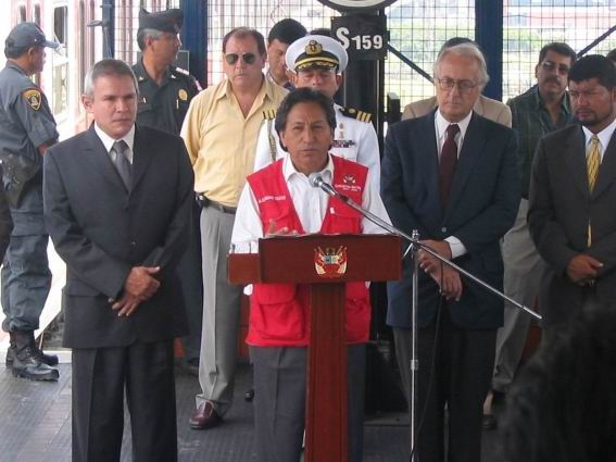 The subsribing of the convention for metro extension (from let to right) Lima's mayor Lima Dr. Luis Castaneda Lossio, Peru's president Dr. Alejandro Toledo Manrique and the chairman of the metro transport corporation Arq. Alberto Sanchez Aizcorbe